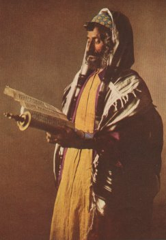 "These Jews, claiming to be of the tribe of Gad, have lived for centuries in Yemen in Southern Arabia." smaller version of photo, Yemeni Jew in traditional costume, from March, 1914 National Geographic Magazine